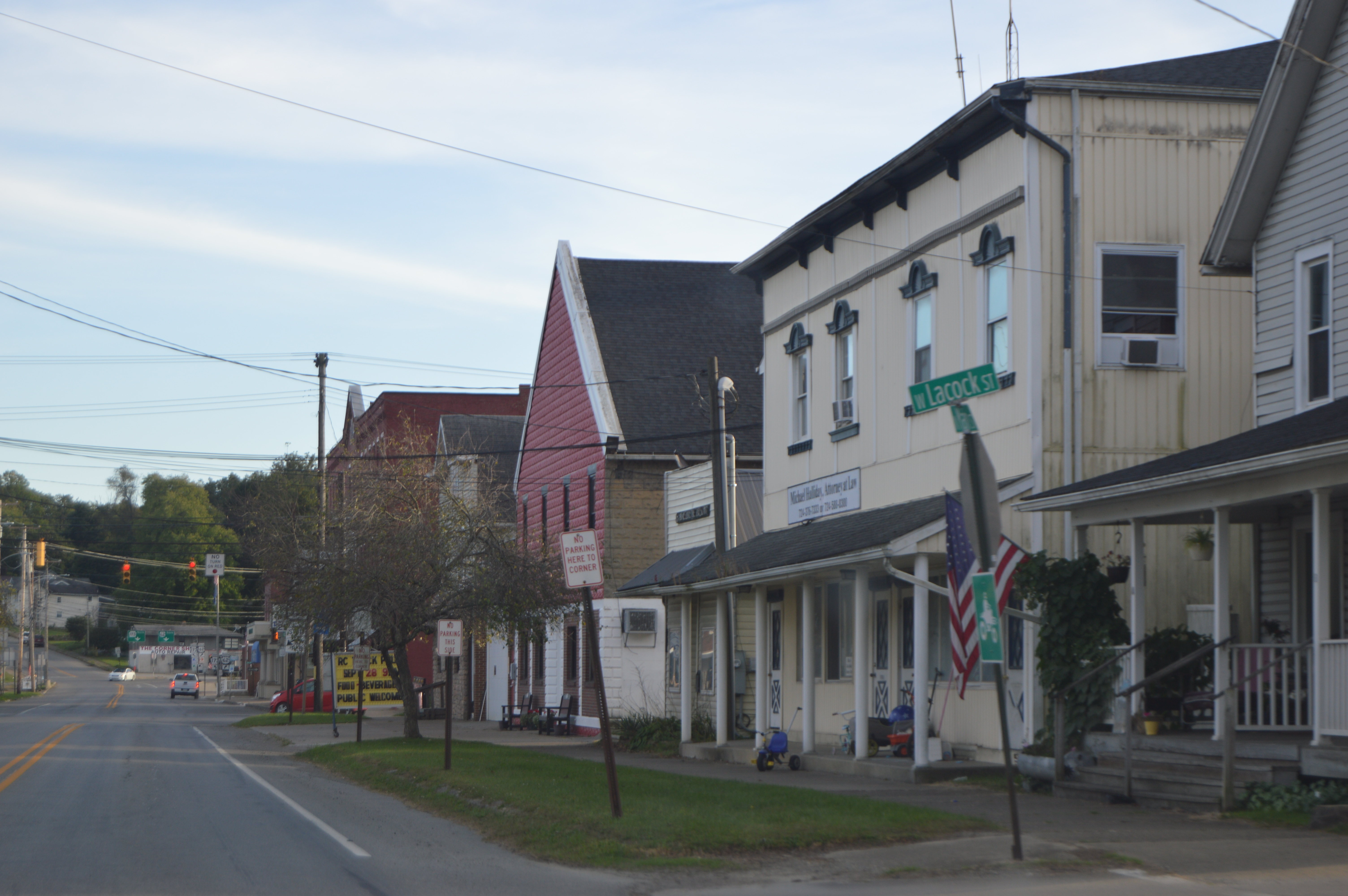 Buildings on the western side of Main Street (Pennsylvania Route 173) south of Lacock Street in central Sandy Lake, Pennsylvania, United States.